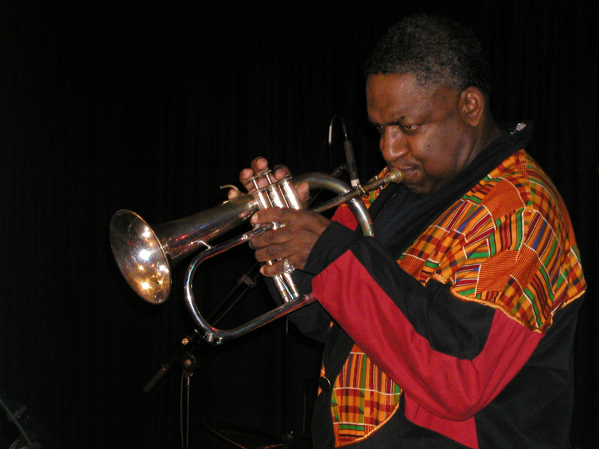 Roy Campbell jr. in concert with "A Tribute to Albert Ayler" (Joe McPhee, Roy Campbell jr., William Parker & Warren Smith) one day after the election of Barack Obama for President of the US in Club W71, Weikersheim.